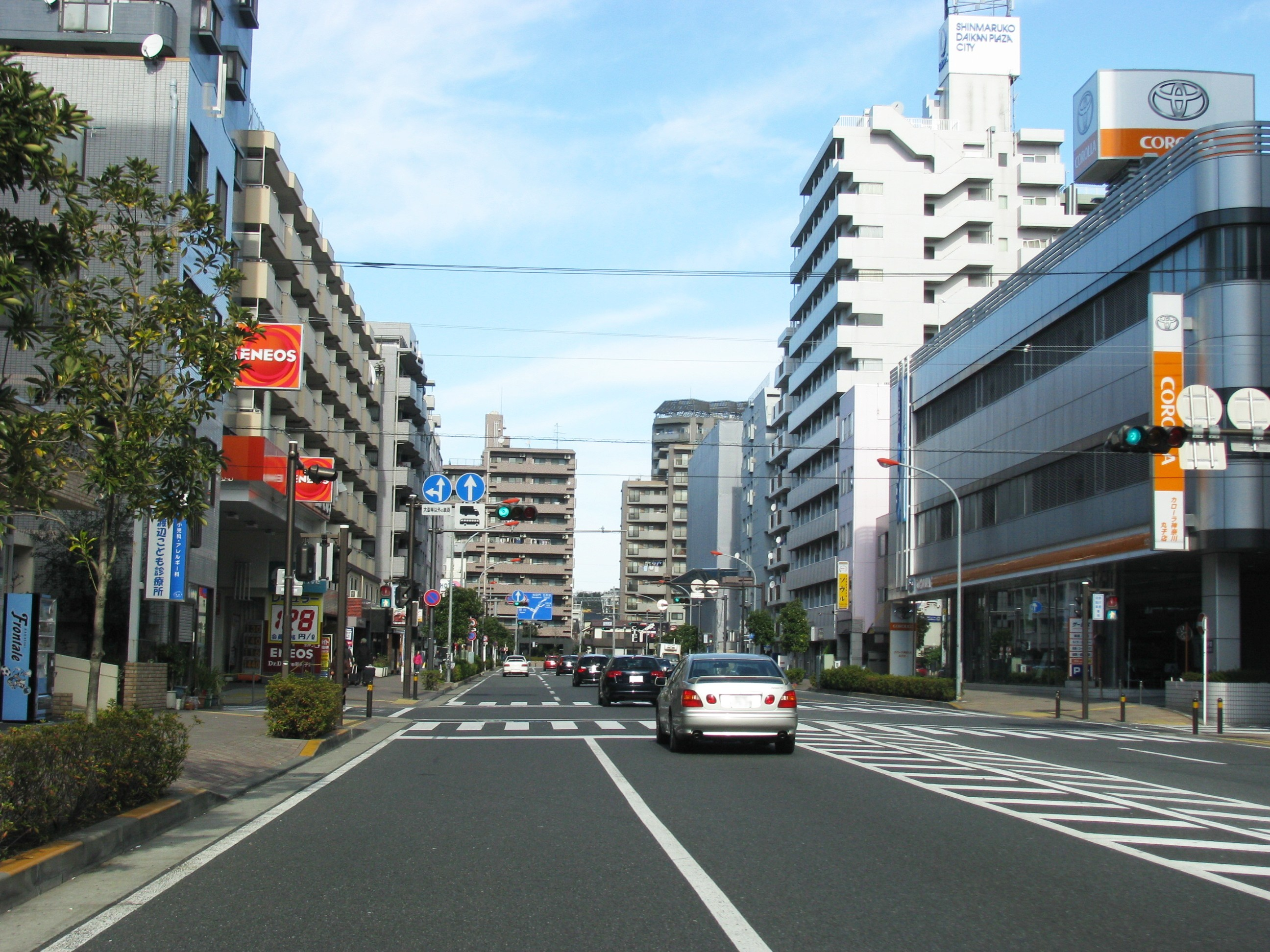 The Kanagawa Prefectural Route 2. This place is Nakahara, Kawasaki, Kanagawa, Japan.